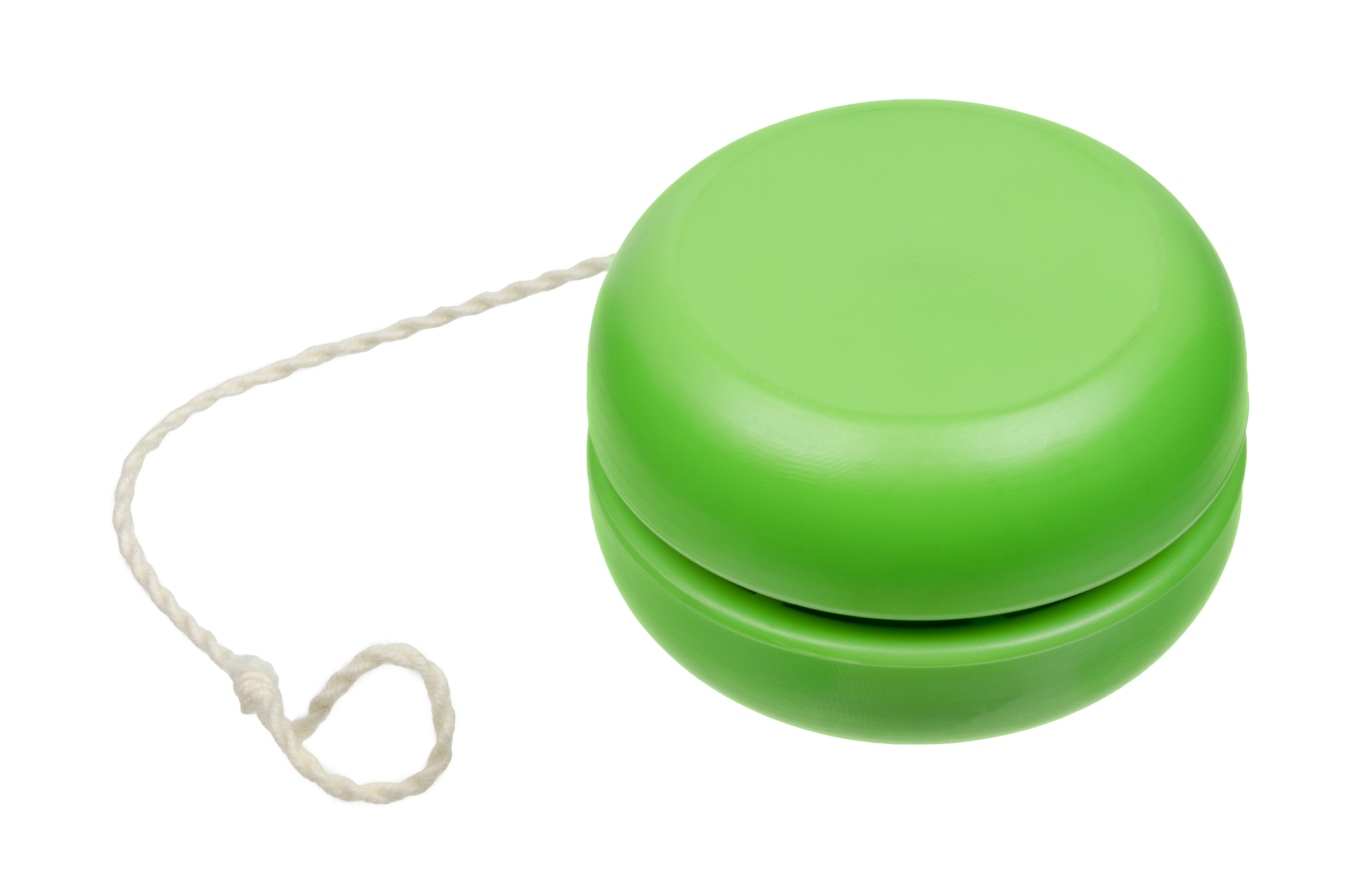 A green plastic yo-yo, an old fashioned toy that used a string attached to two discs that could be spun and used to perform tricks.